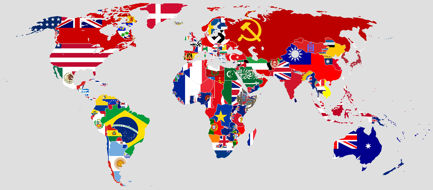 1942 Flags map